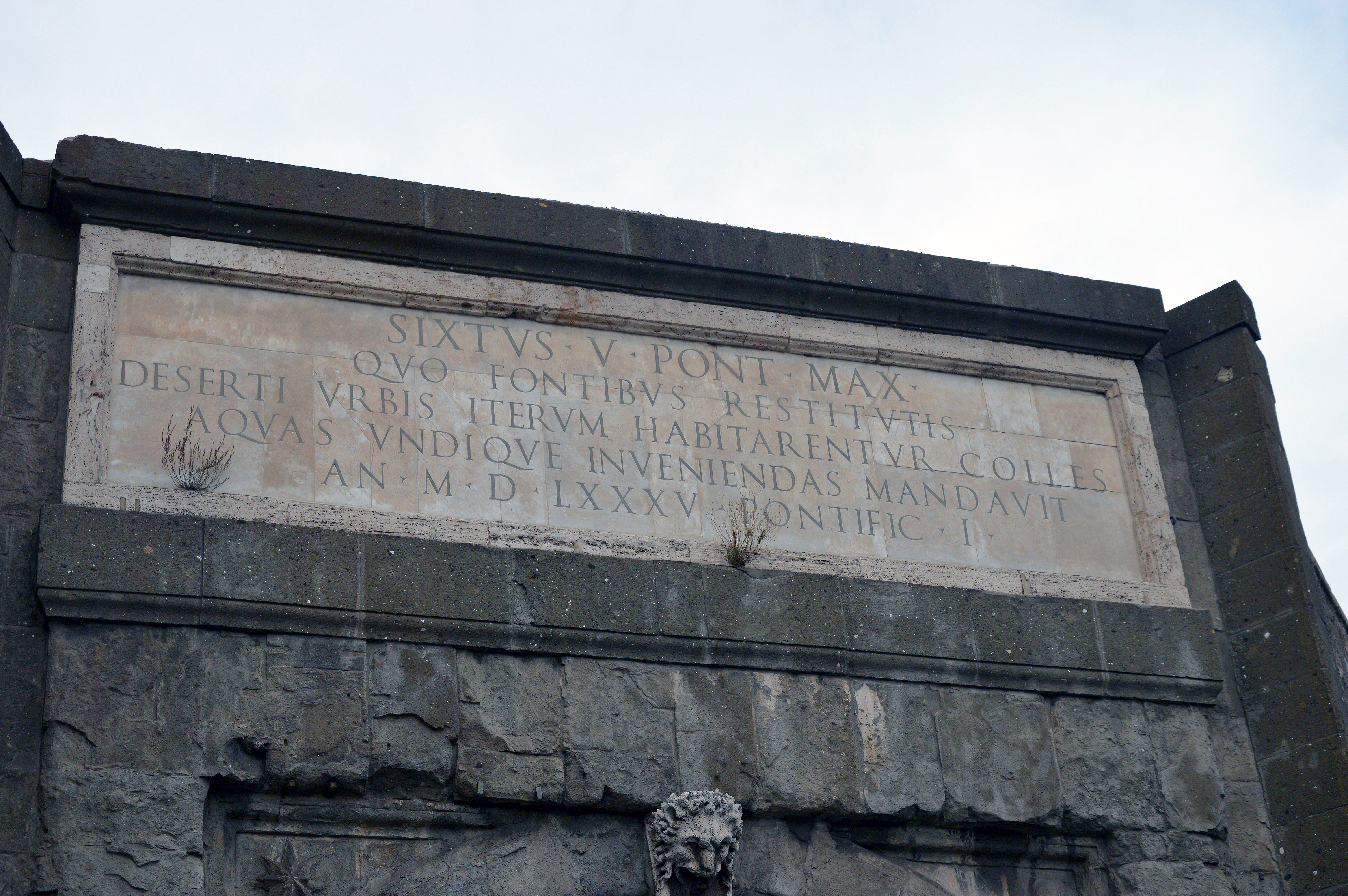 Plate on Porta Sistus V - Porta Furba